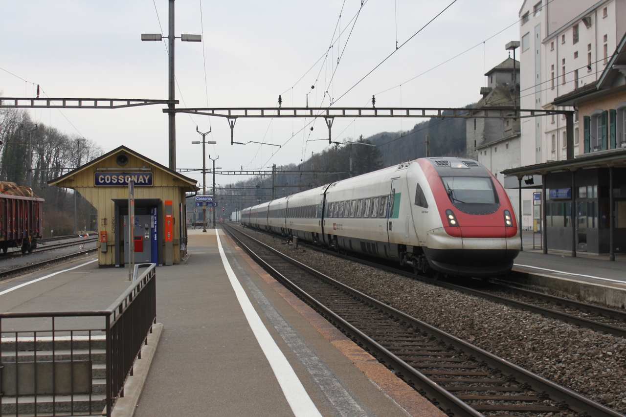 SBB CFF FFS RABDe 500 010-4 passes through Cossonay train station.